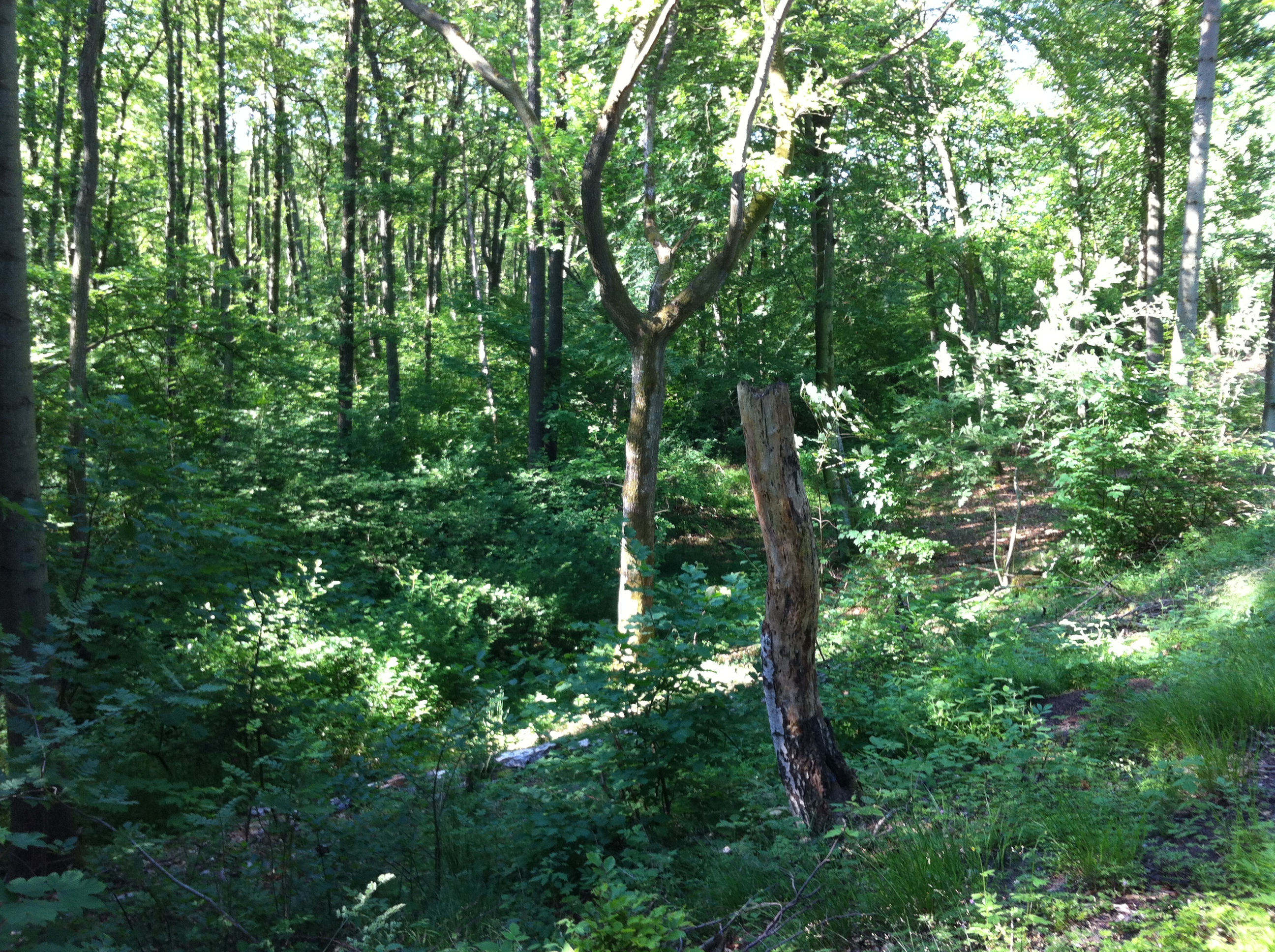 Deciduous wood at Lake Vallum, June 2016